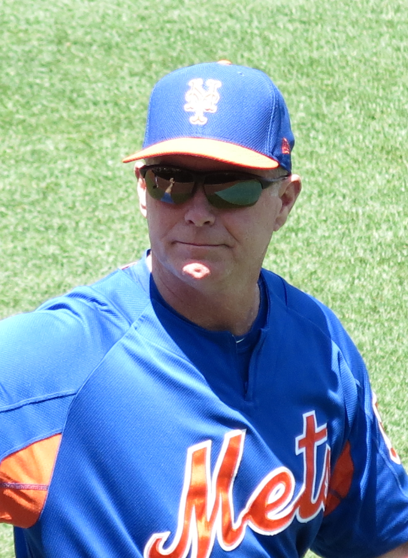 Glenn Sherlock on May 21, 2017.